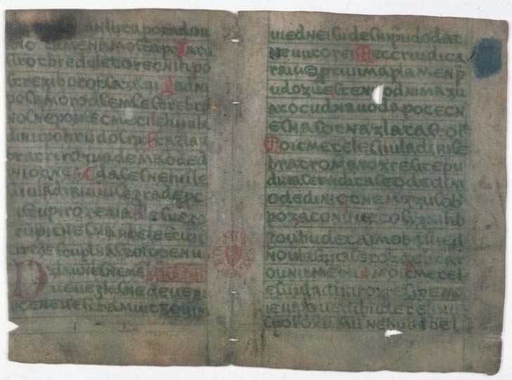 Manuscript of Zelená Hora - 4th and 5th pages.